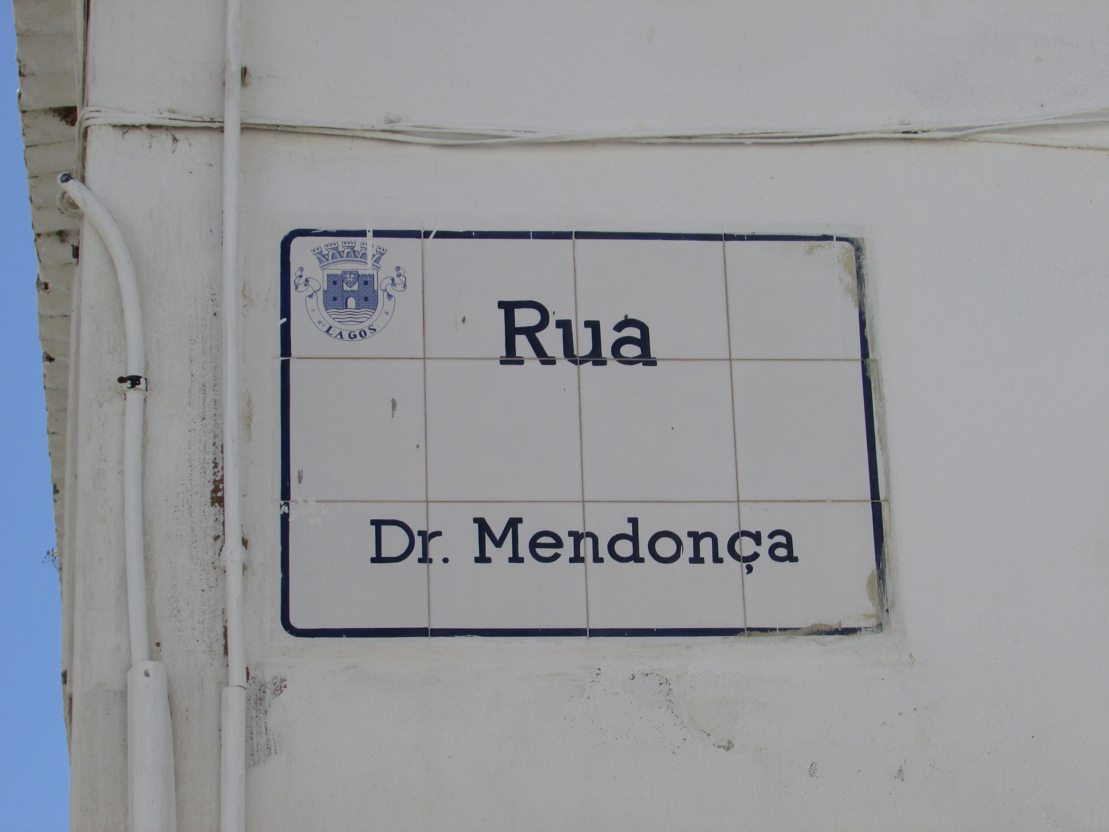 The tile street sign which designates the Rua Doutor Mendonça within the city of Lagos, Algarve, Portugal.